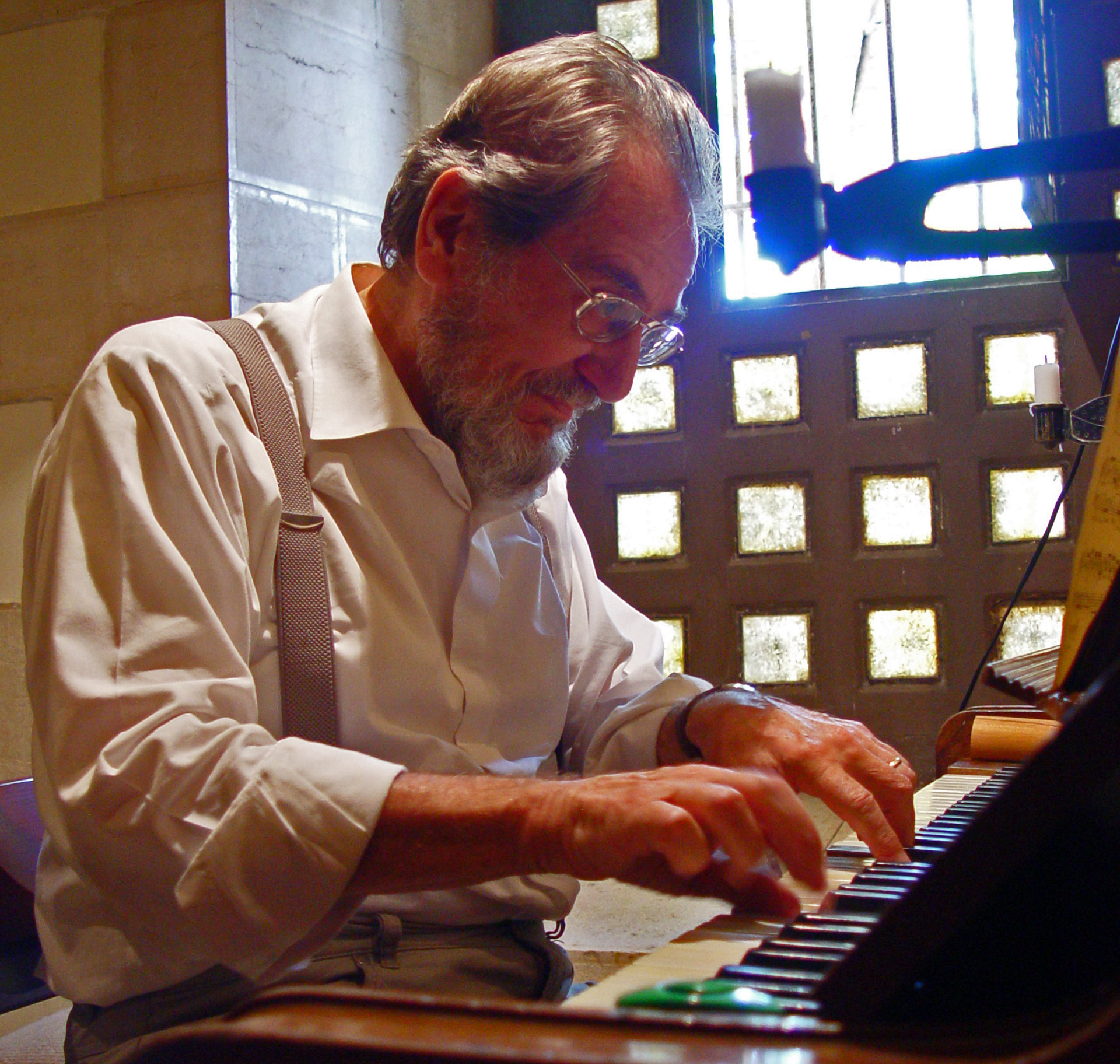 The Lutheran Ascension Church at Augusta Victoria Foundation, Jerusalem; German composer & organist Oskar Gottlieb Blarr practices the piano